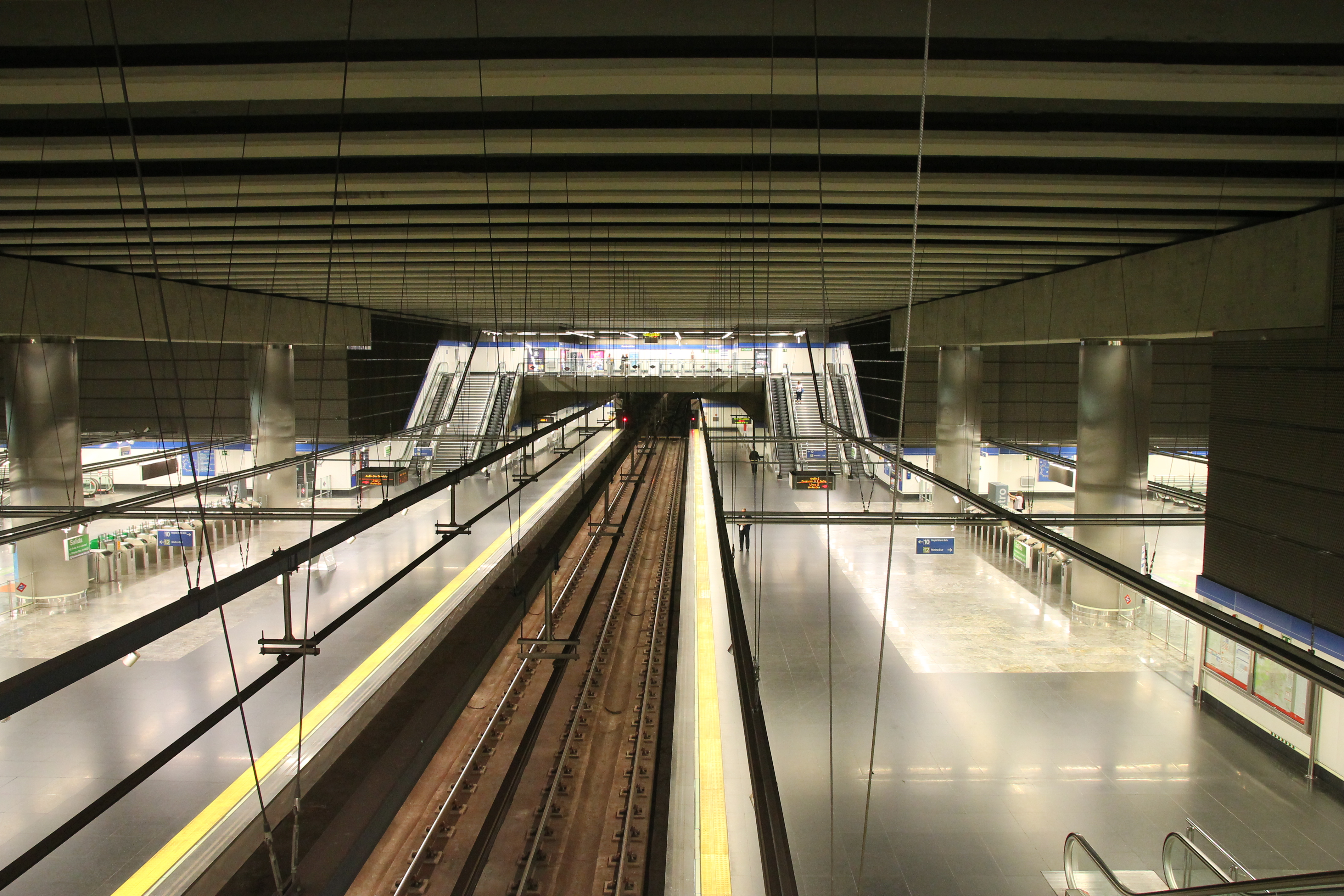 Puerta del Sur metro station, line 10, Madrid